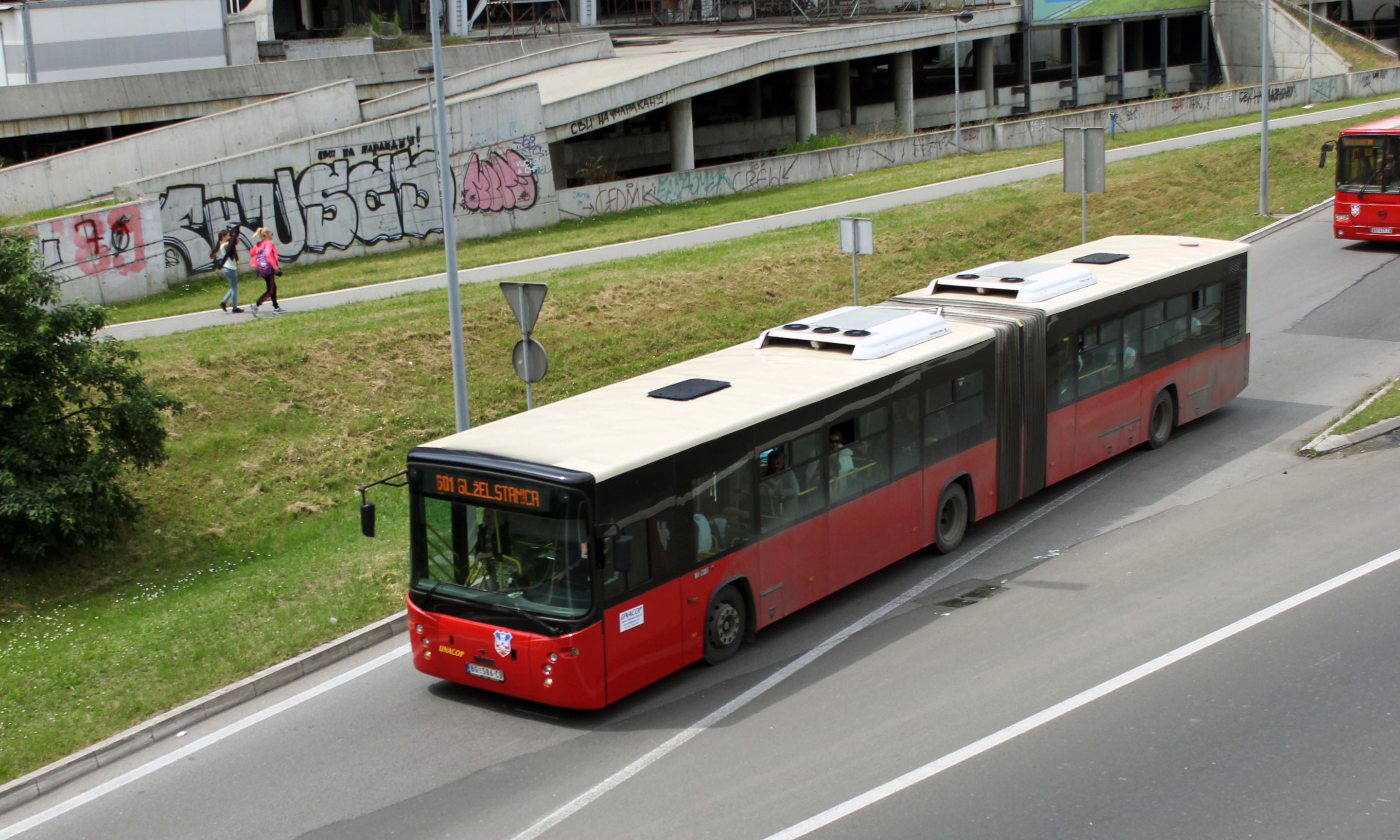 Ikarbus IK 218 articulated public city bus of Unacop private transport company from Belgrade on city bus line No. 601.